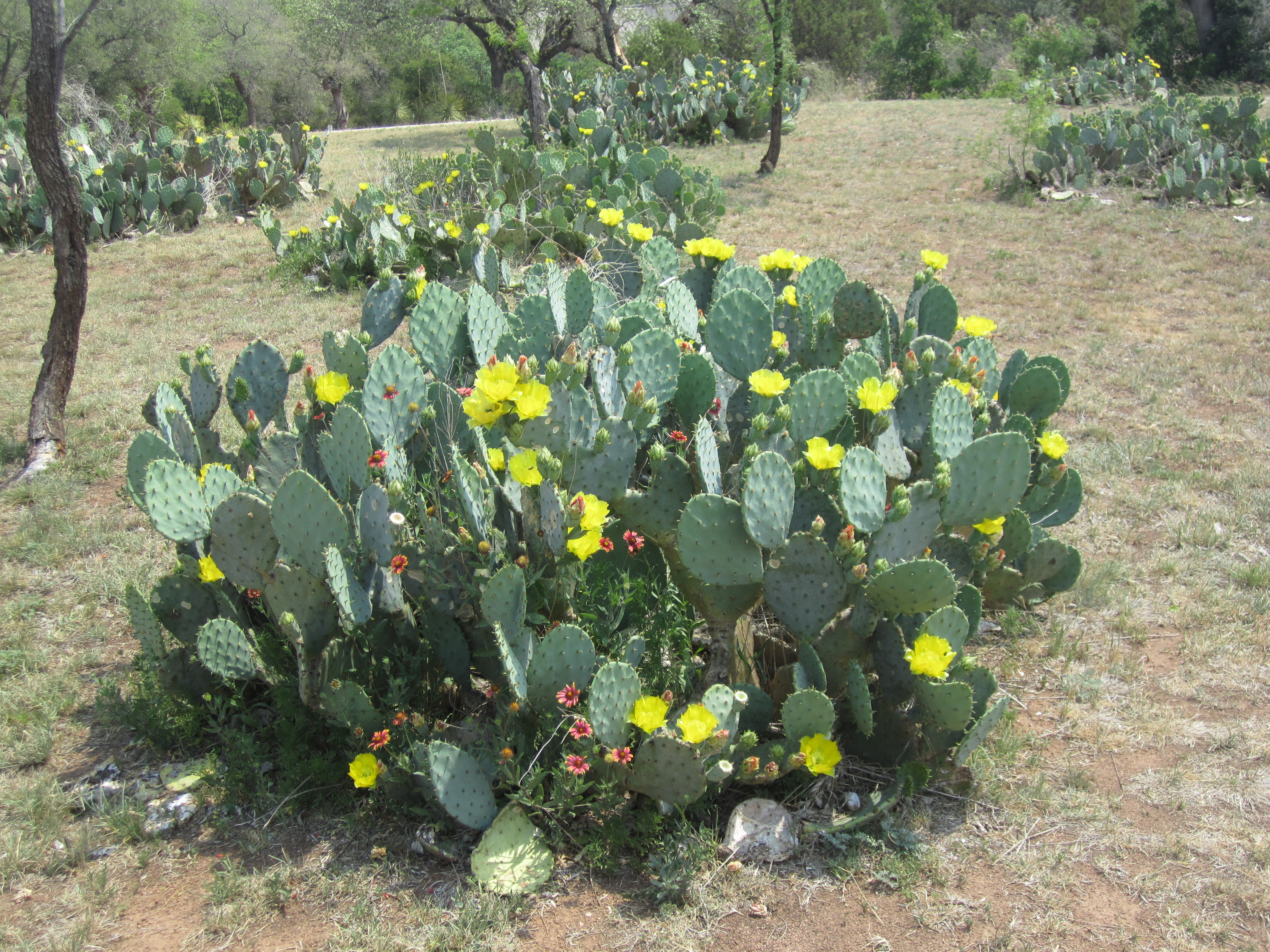 Opuntia engelmannii var. lindheimeri. I took photo with Canon camera in Llano County, TX.